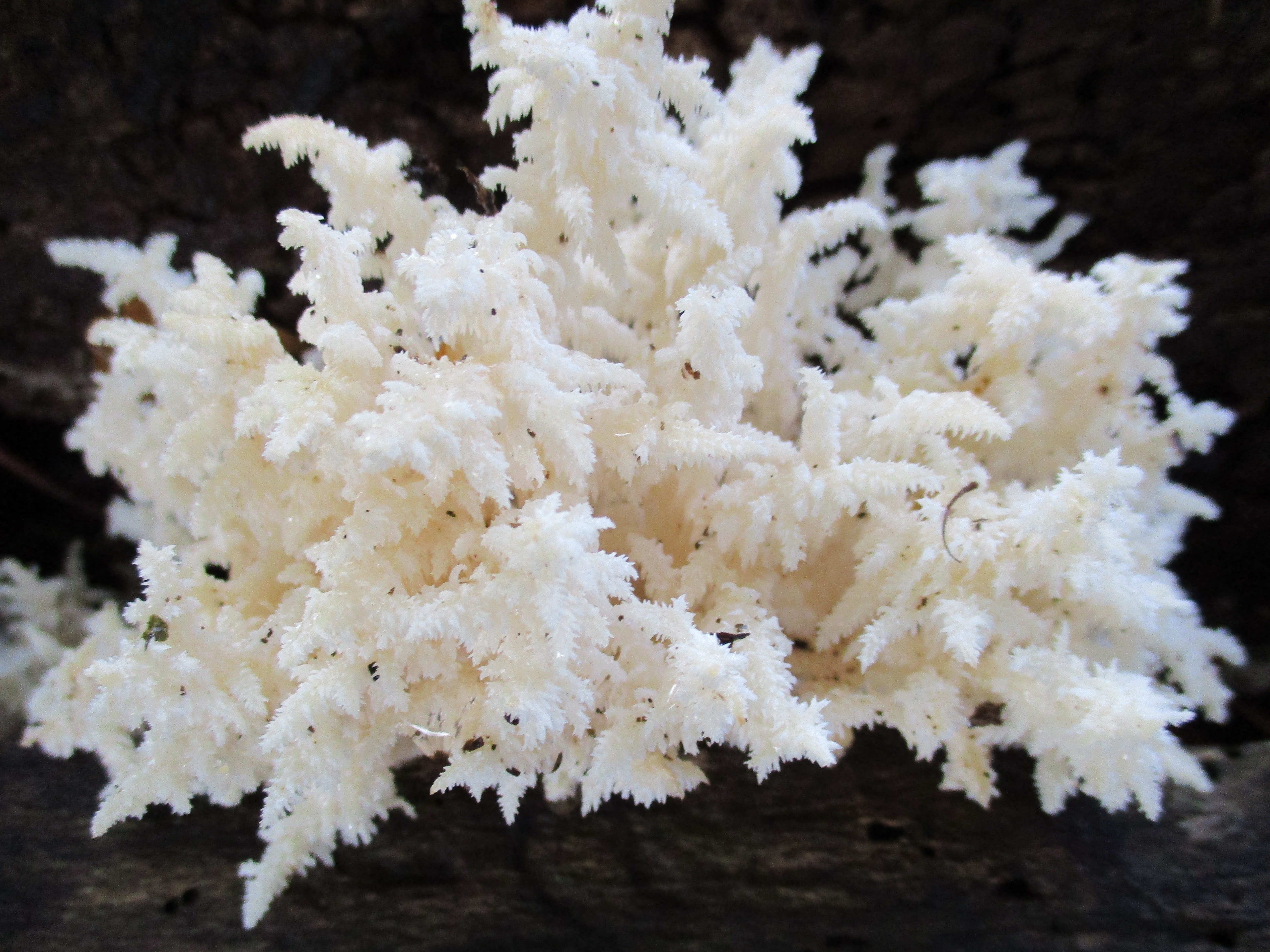 coral tooth fungus Hericium coralloides found on dead wood